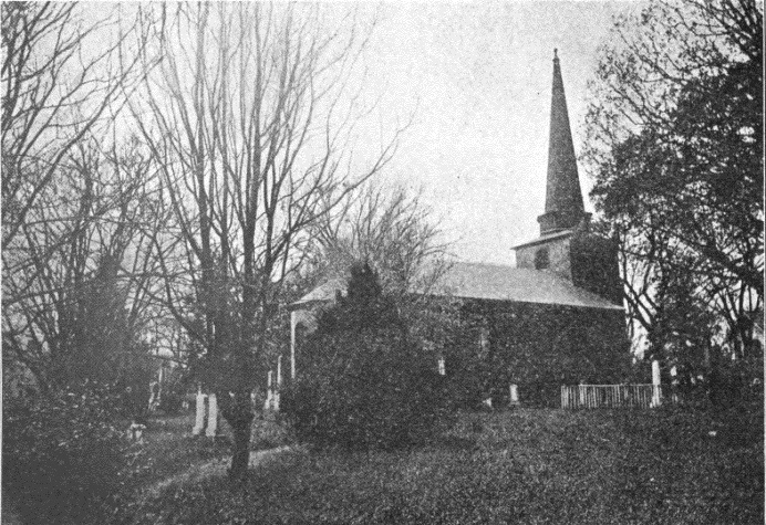 c. 1908. Building begun 1736, completed 1760.